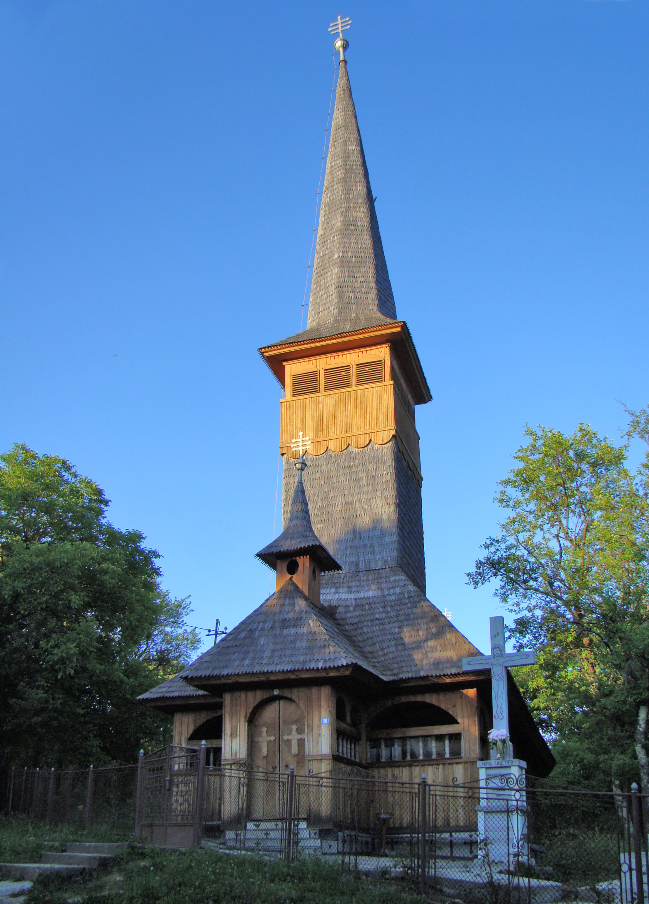 Wooden church in Vărai, Maramureş